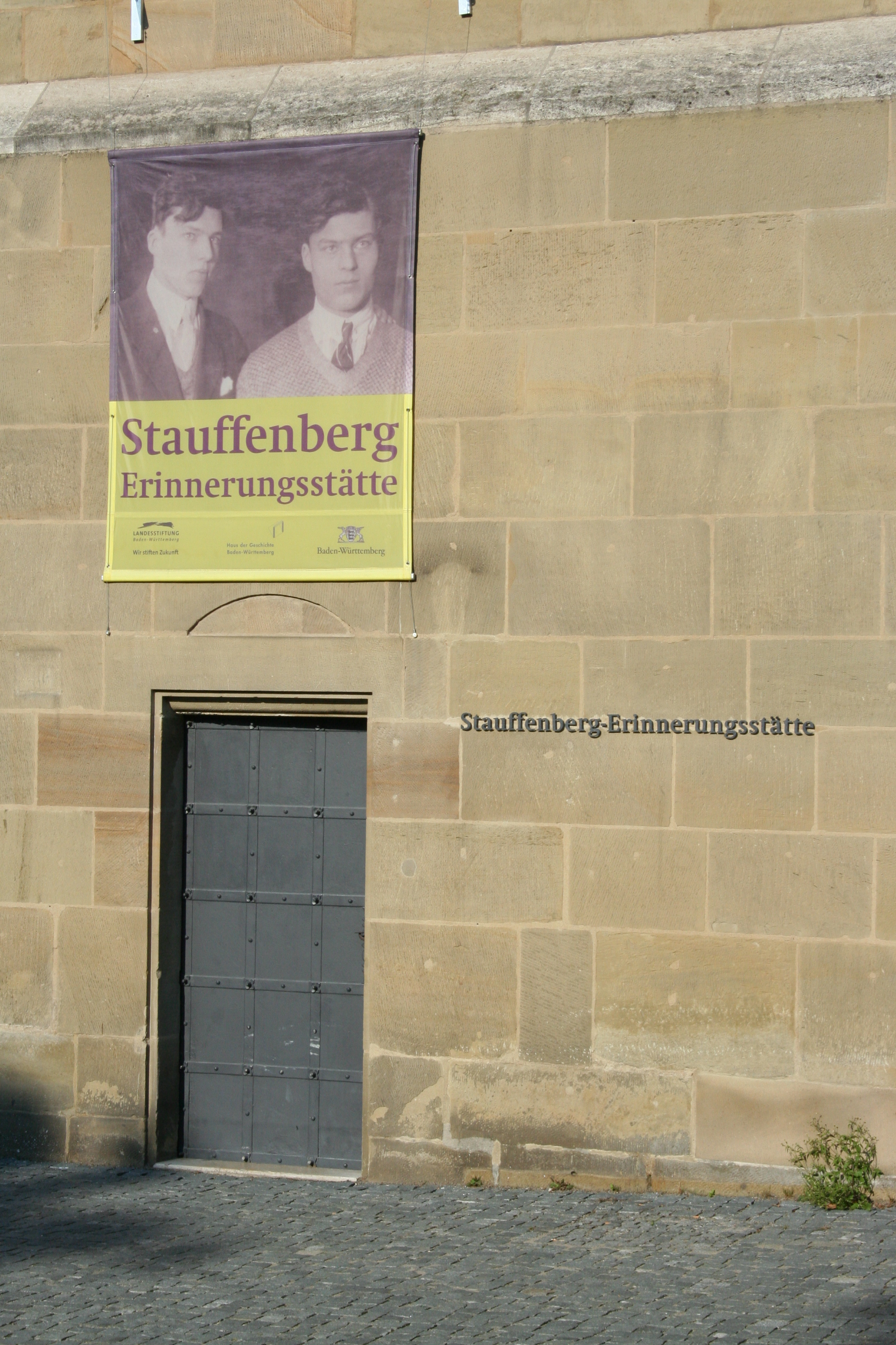 Stuttgart. Memorial Place for Stauffenberg, Old Castle, House of History Baden-Württemberg part